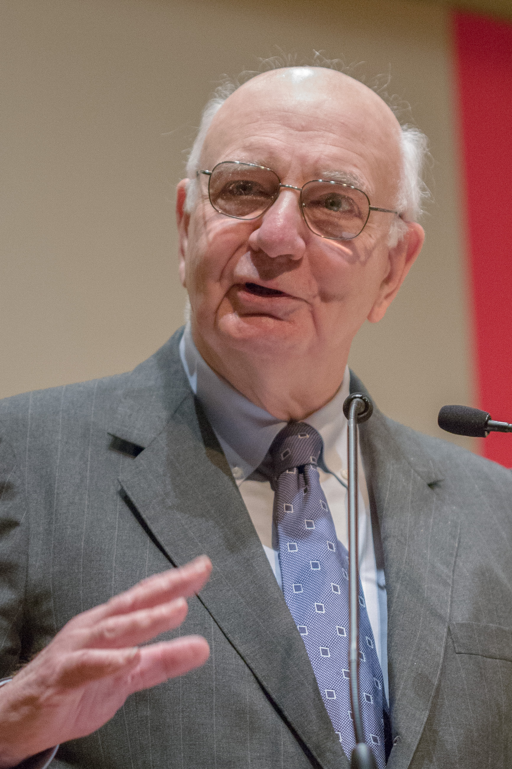 Paul A. Volcker, former Chairman of the Federal Reserve, in 2006.